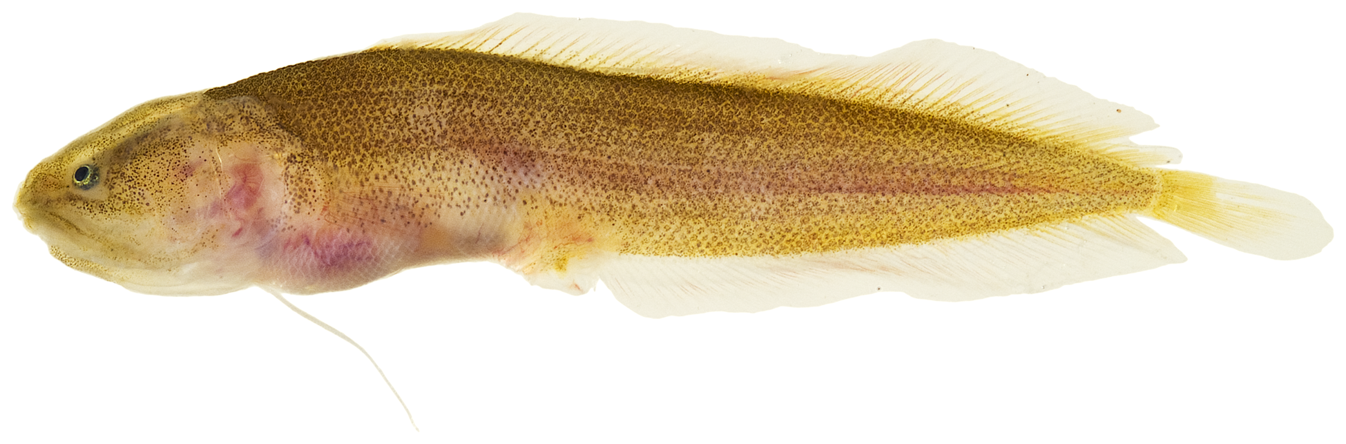 Ogilbia sabaji Moller, Schwarzhans & Nielsen, 2005—Sabaj coralbrotula, 27.2 mm SL. Photo by JT Williams.